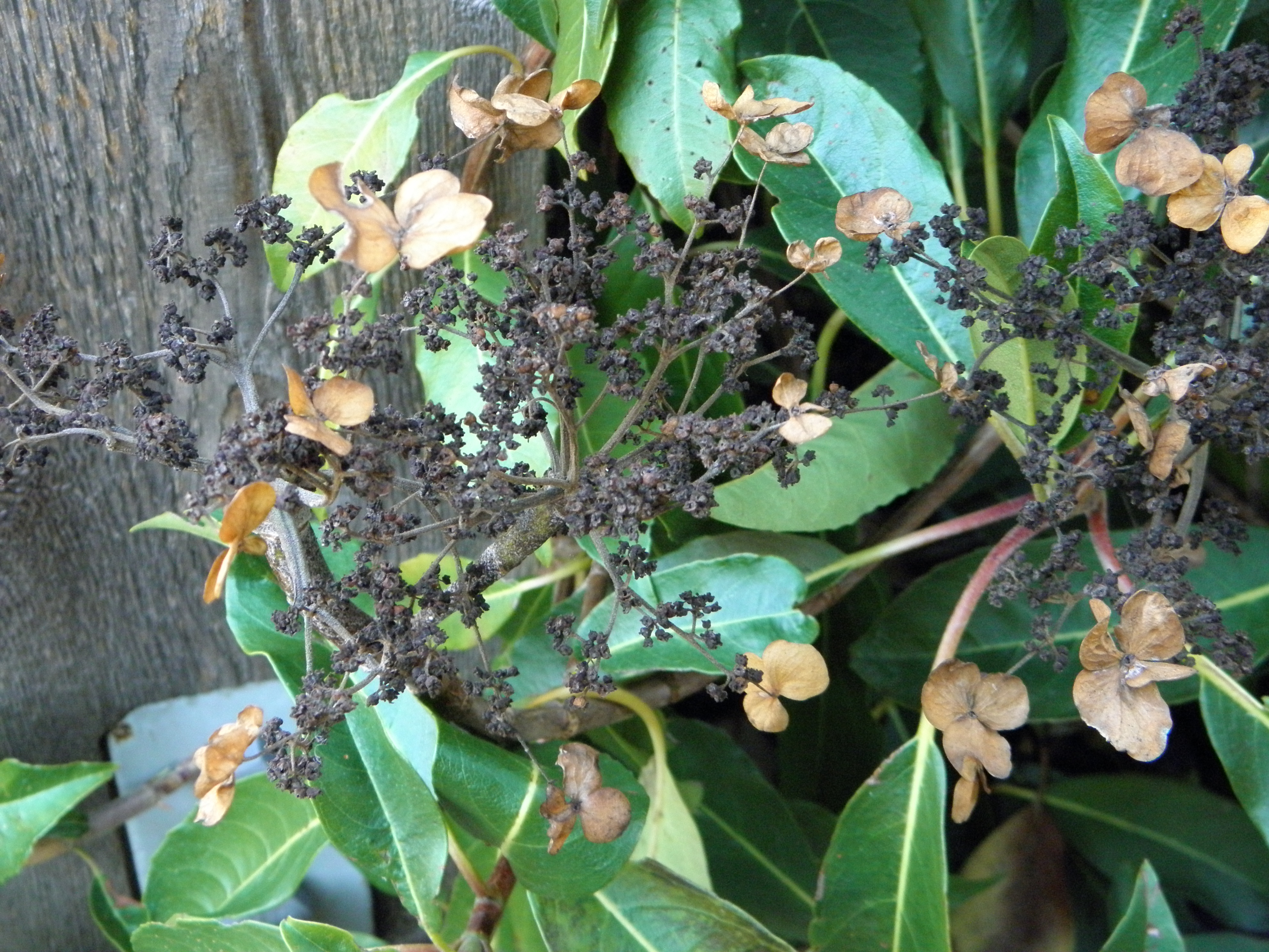 This particular Hydrangea integrifolia had white lace-cap styled inflorescences. This photo was taken in winter.